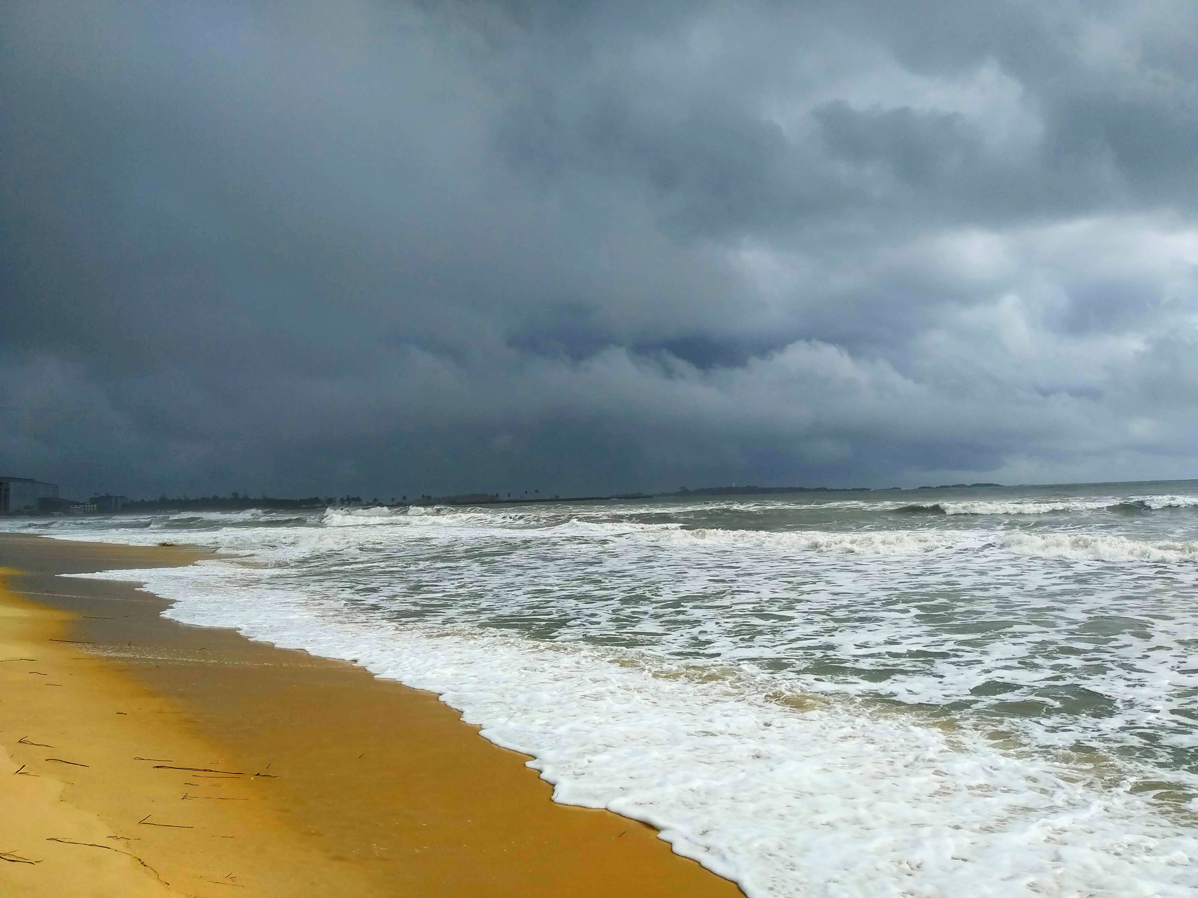 Malpe is a beautiful beach town located just 6 km from the temple town of Udupi. It is a natural port and important fishing area of the Karnataka coastline.